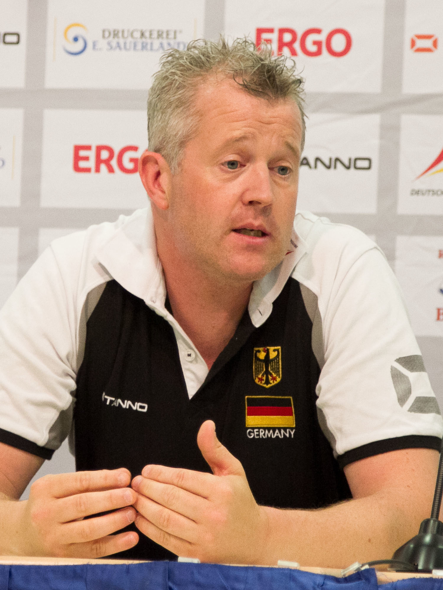 Vital Heynen at the press conference of World League 2014 in Stuttgart, Germany.